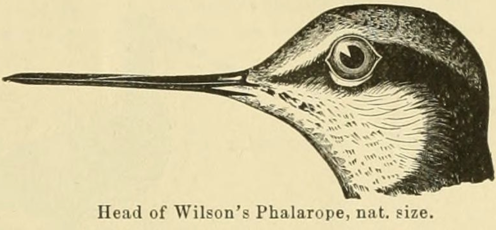 Phalaropus tricolor (Wilson's Phalarope). Caption: "Head of Wilson's Phalarope, nat. size."